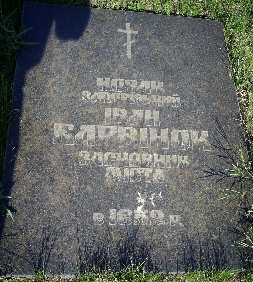 Commemorative stone inscription below Ivan Barvinok's monument.